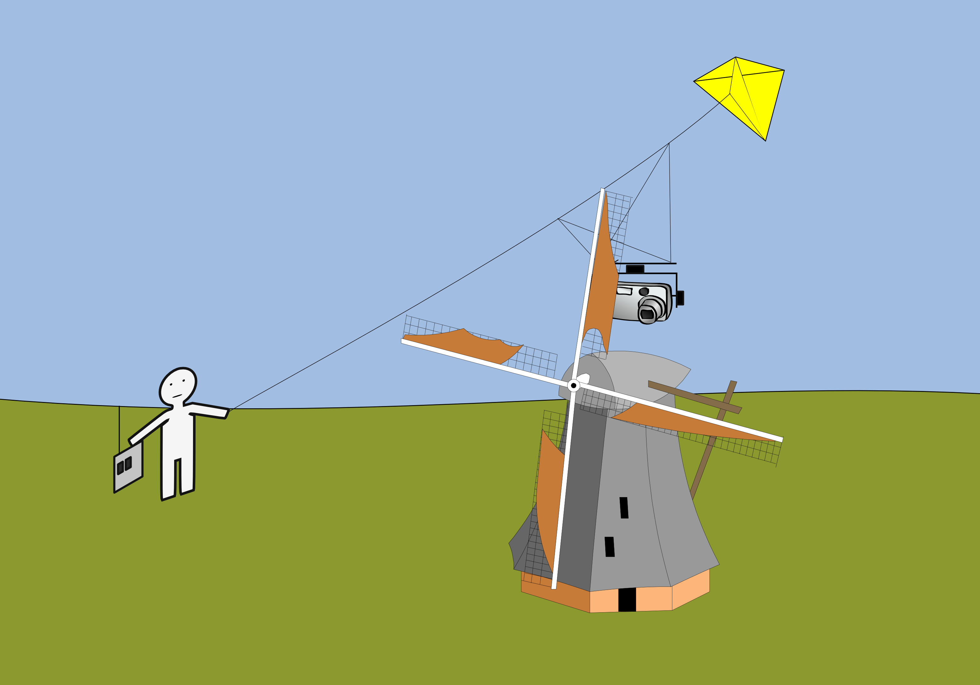 A kite is used to lift a camera to take aerial photographs